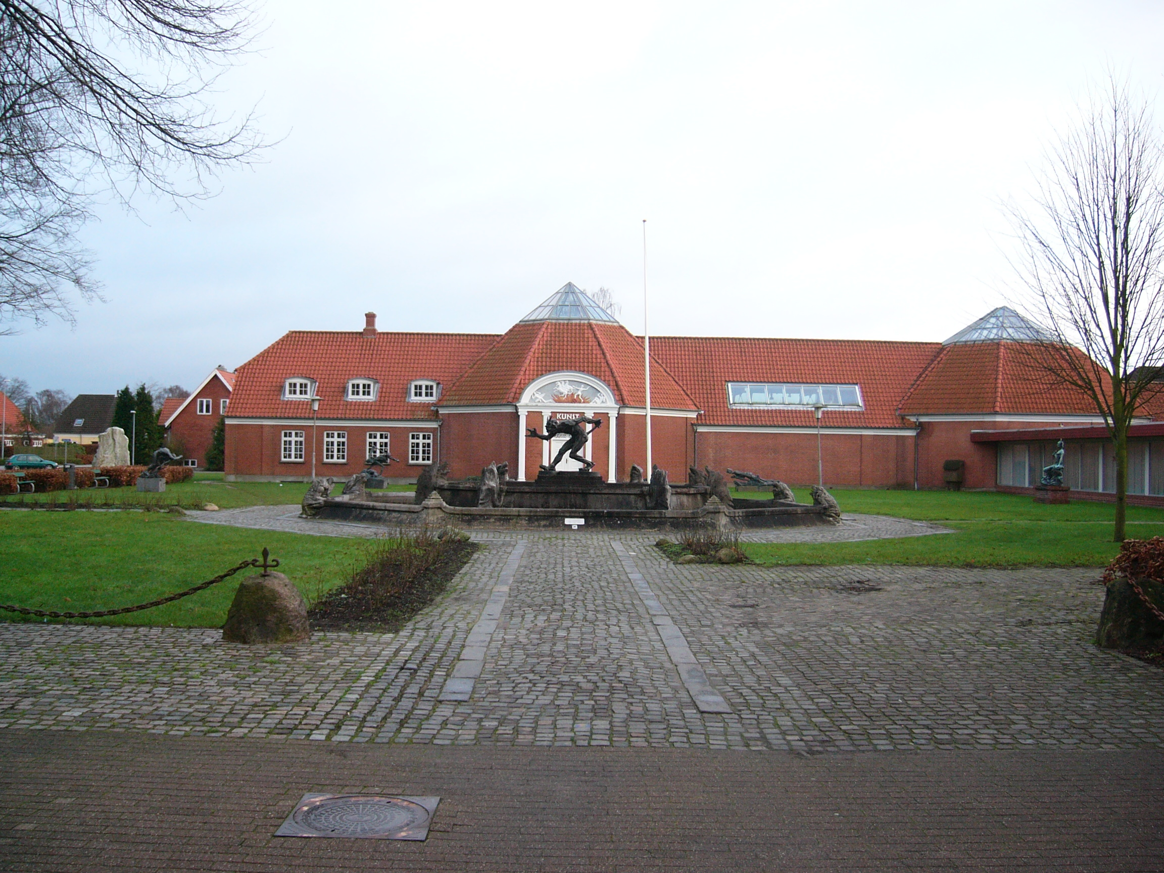 Vejen Art Museum, Denmark. In the middle of the picture, the sculpture En Trold, der vejrer Kristenkød ("A troll scenting Christian flesh") by Niels Hansen Jacobsen is shown.